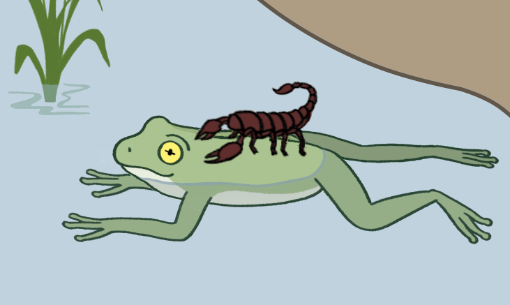 Illustration of the classic fable The Scorpion and the Frog.